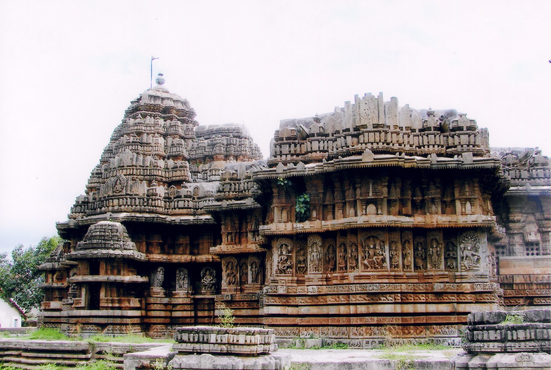 Lakshminarasimha Temple. Located in Haranhalli, Karnataka, India.